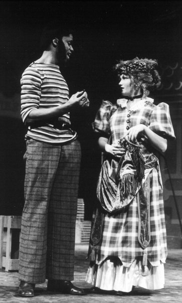 Roscoe (Rocky) Carroll as Jigger and Liz Scribner as Mrs. Mullin in the February 1980 production of Carousel at Cincinnati School for Creative and Performing Arts (SCPA).